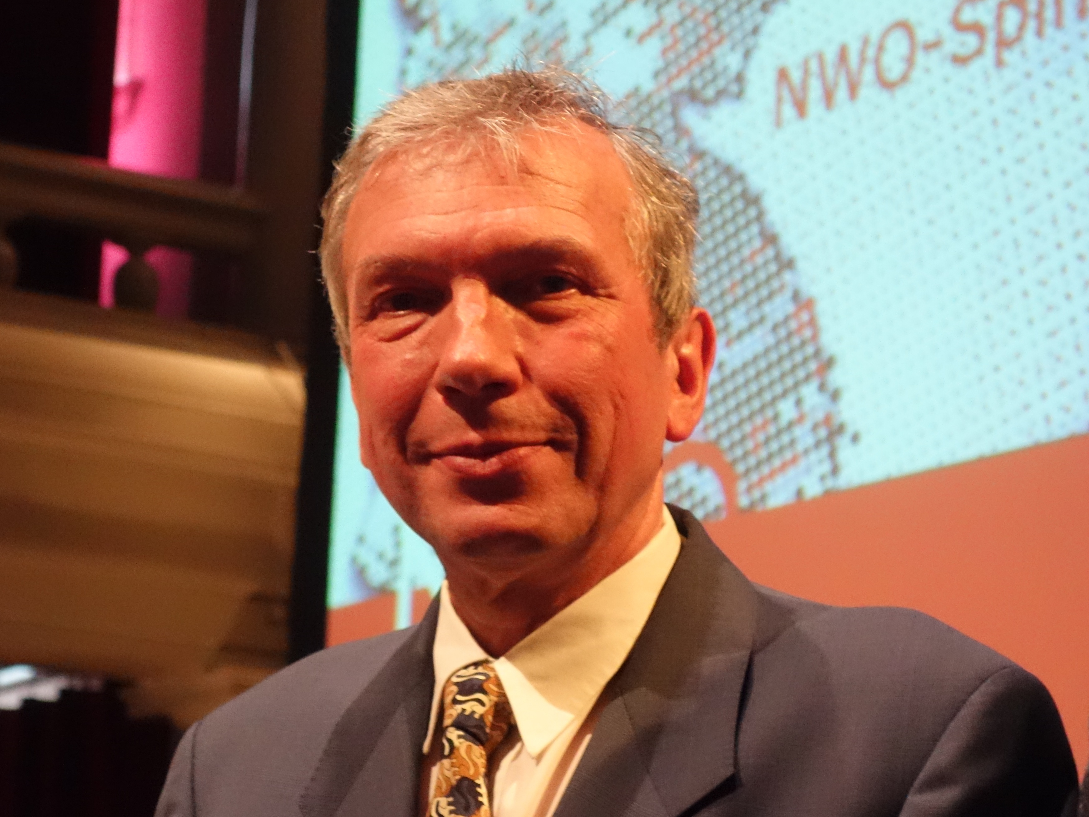 French chemist Michèl Orrit (Amsterdam, June 2017)